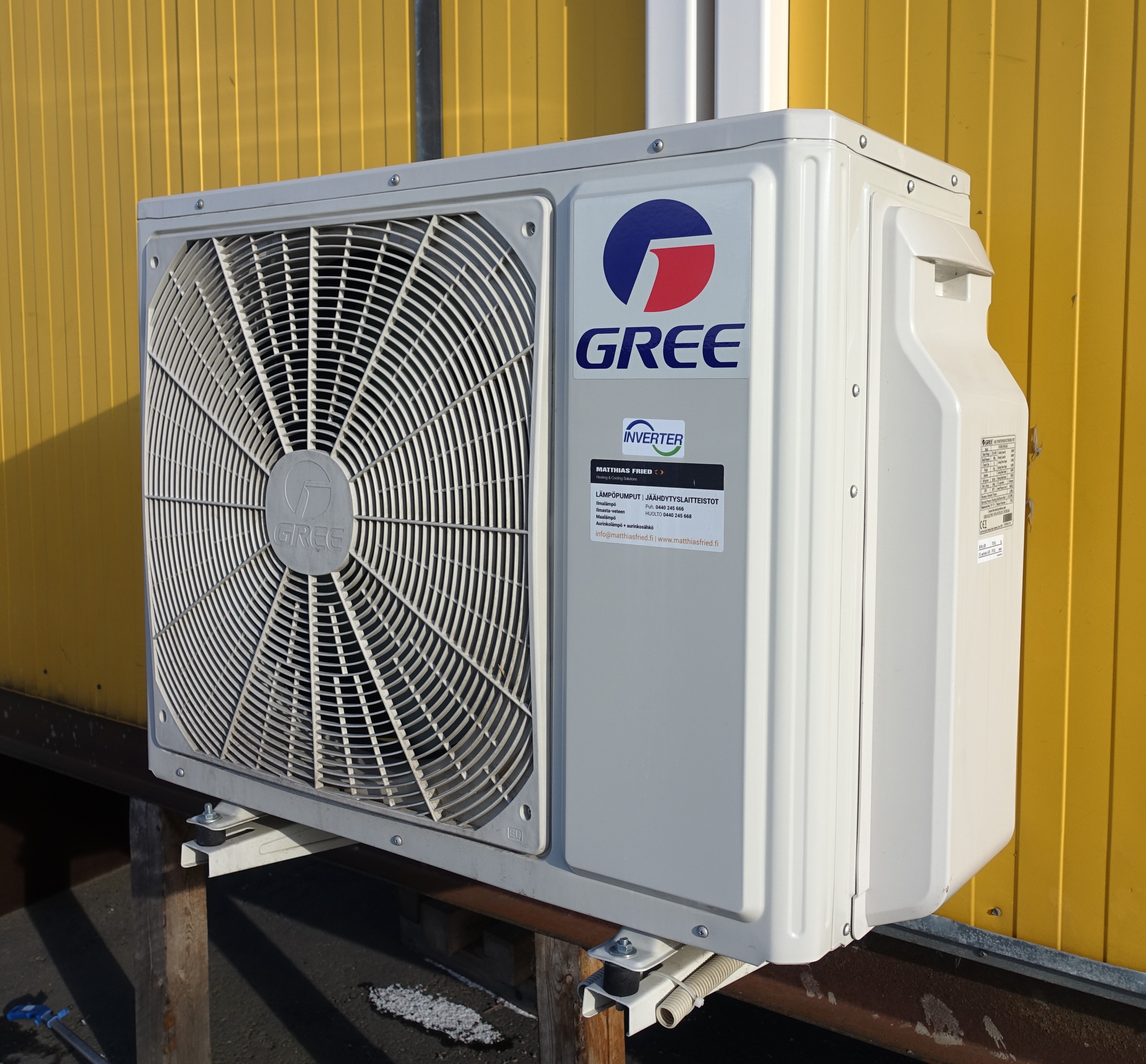 Gree heat pump's outside unit.